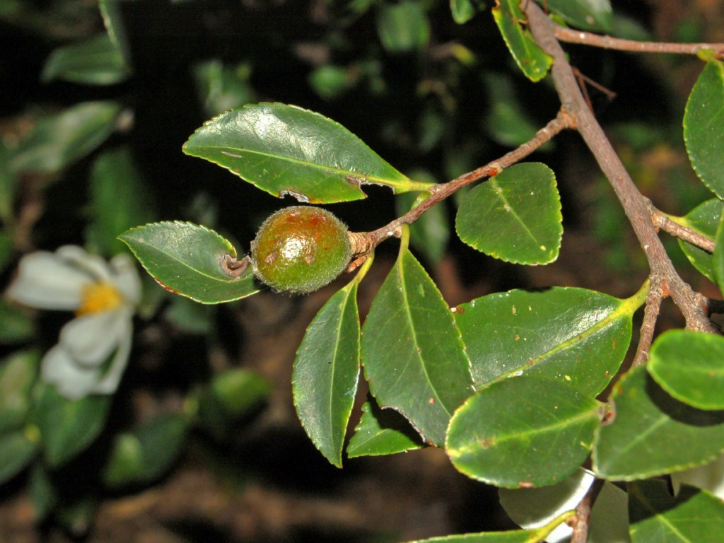 Tutcheria virgata - Genova Nervi, Italy